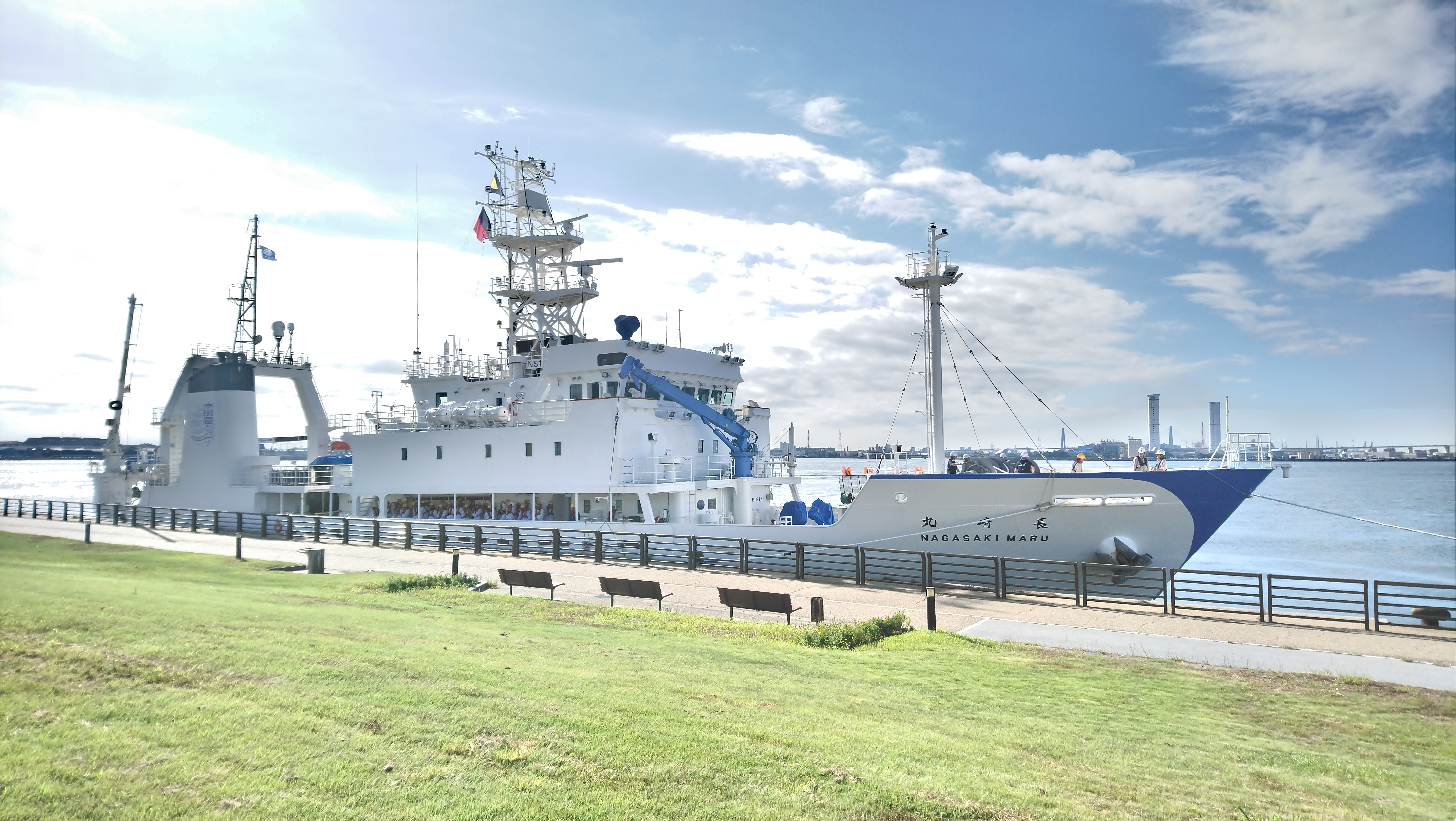 Nagasaki university's training ship "Nagasaki Maru Ⅳ" .Photo taken at the Port of Nagoya, Aichi, Japan.